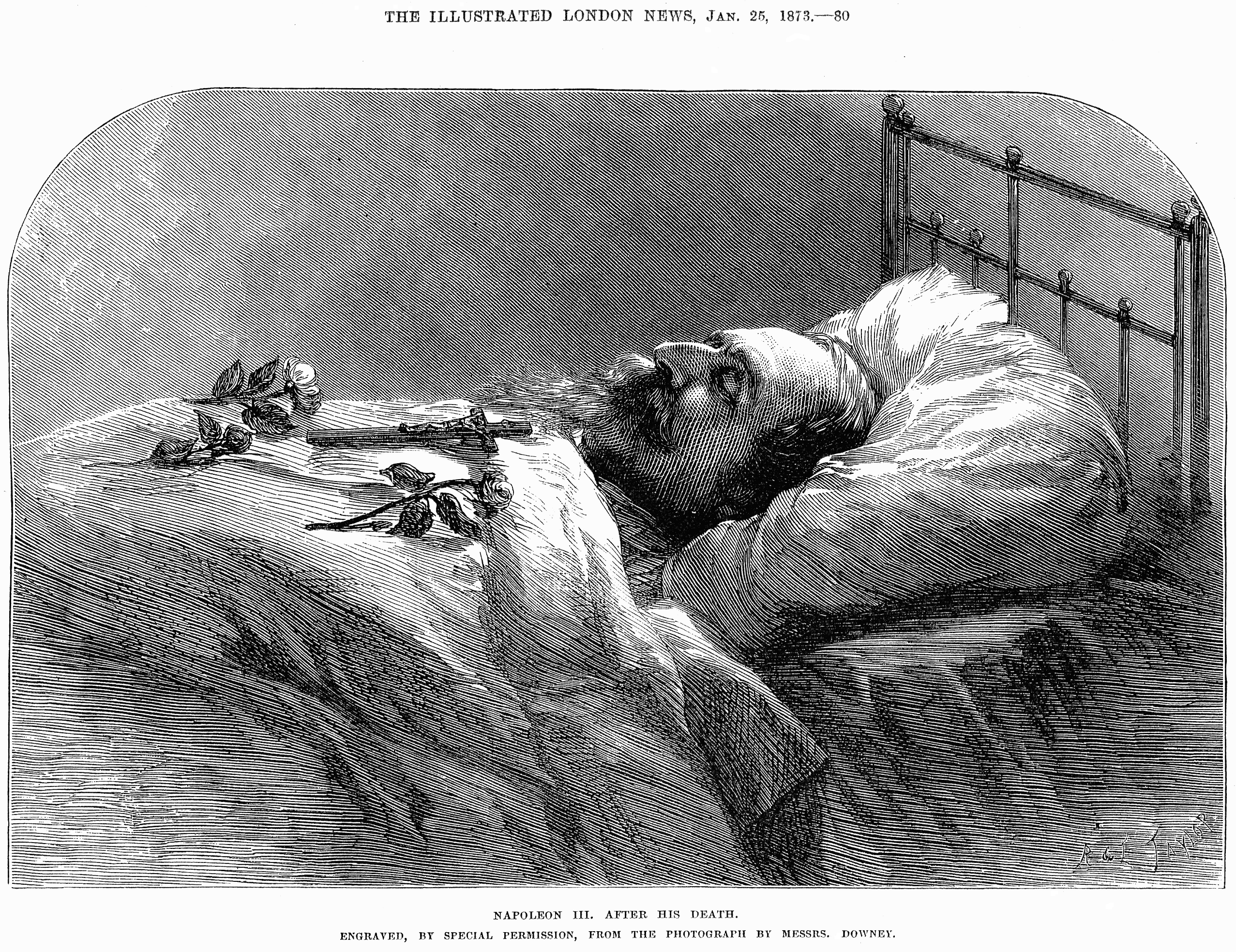 Napoleon III, after his death, illustration of the Jan 25,1873 Illustrated London News.